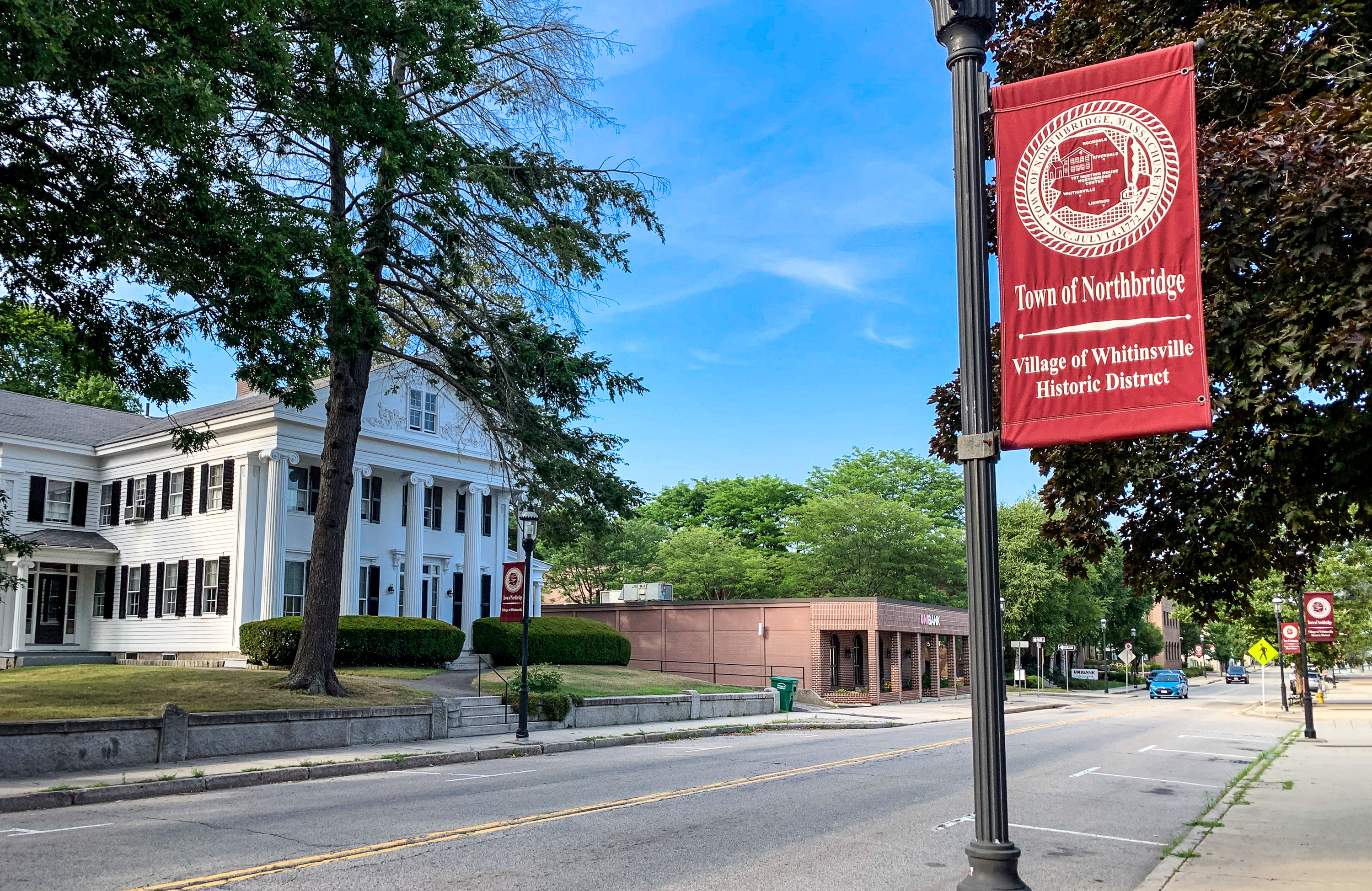 Looking down Church Street in the Whitinsville Historic District, Massachusetts